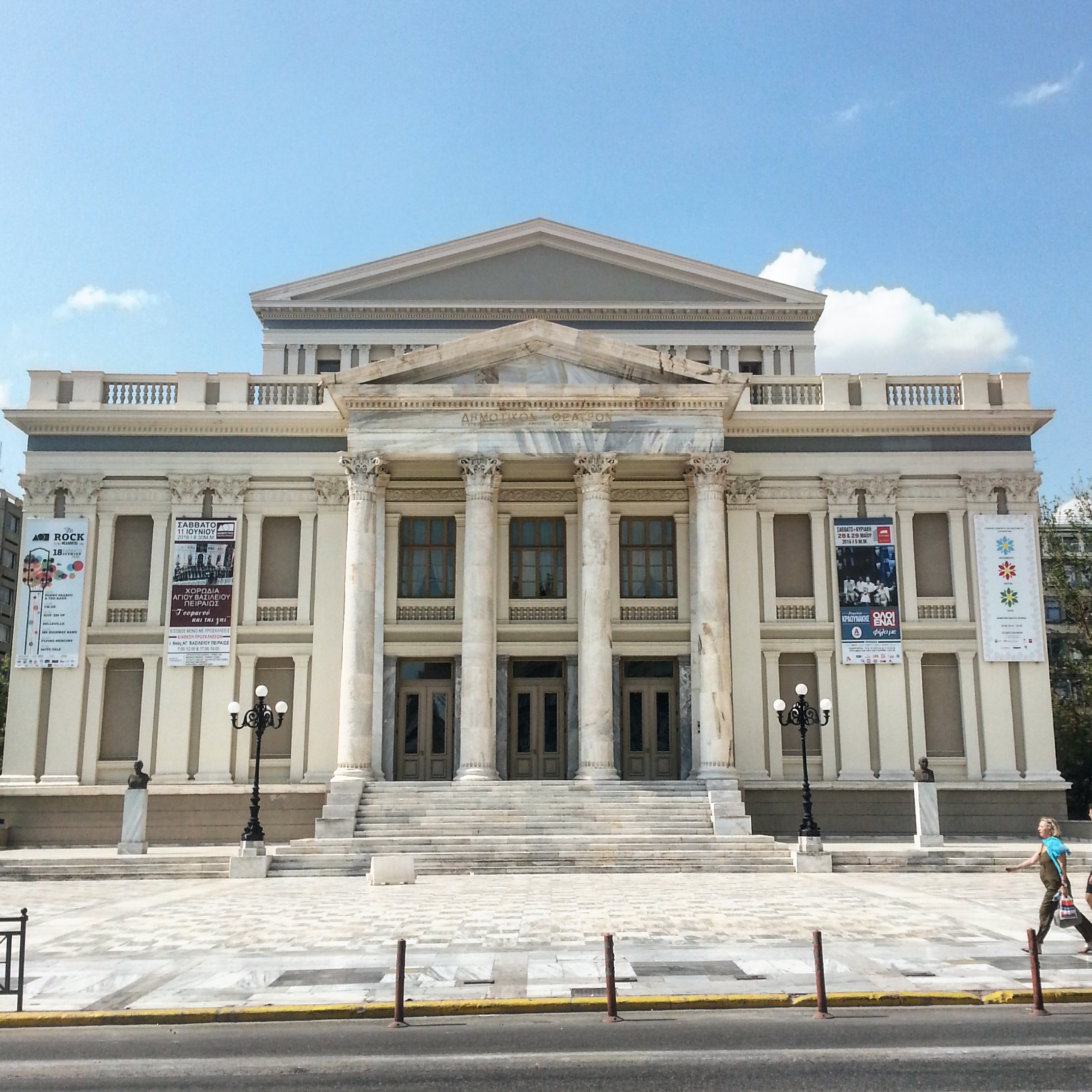 Municipal Theatre of Piraeus British